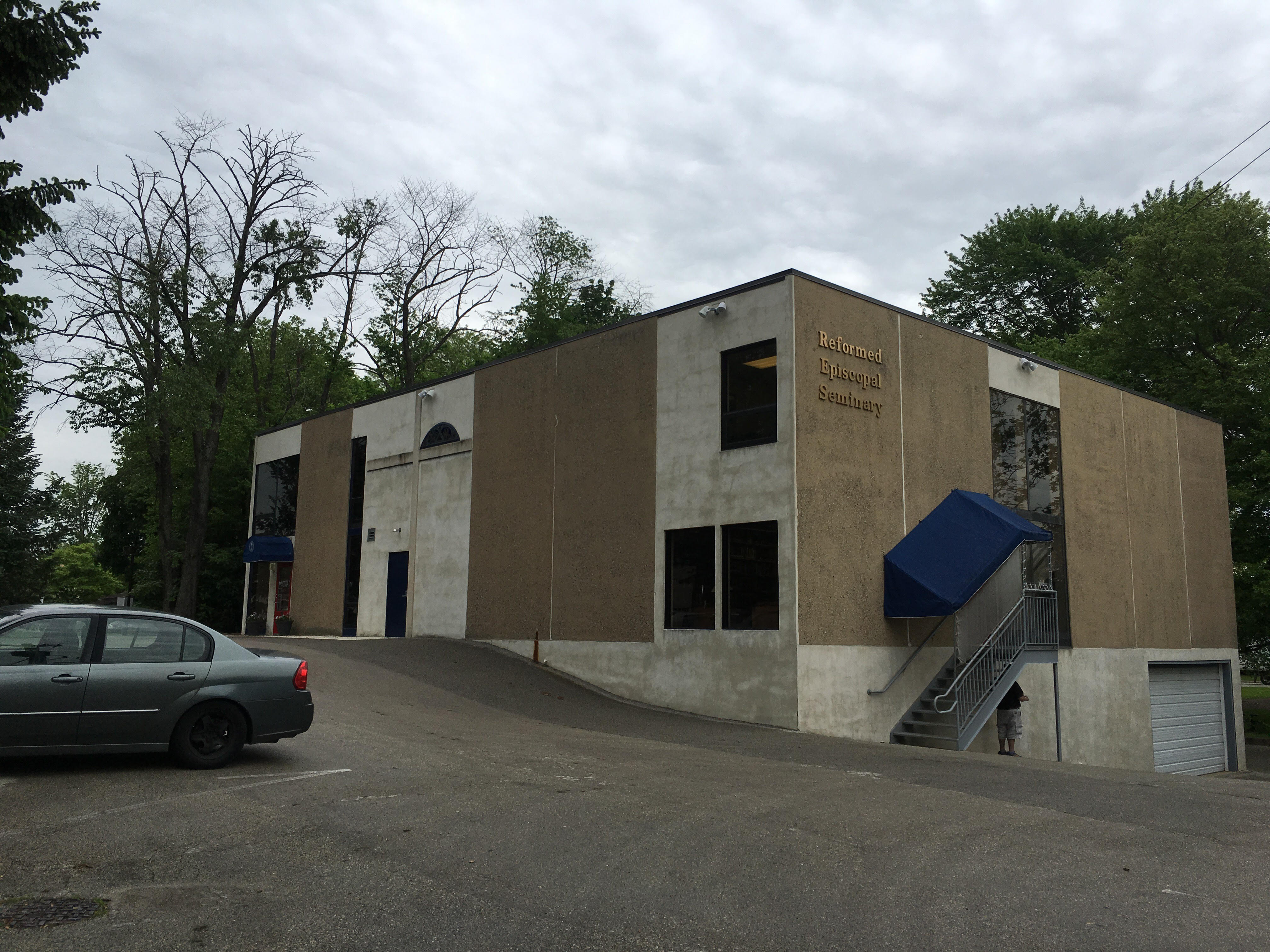 The main seminary building which houses the chapel, the library, professors' officers, and classrooms.